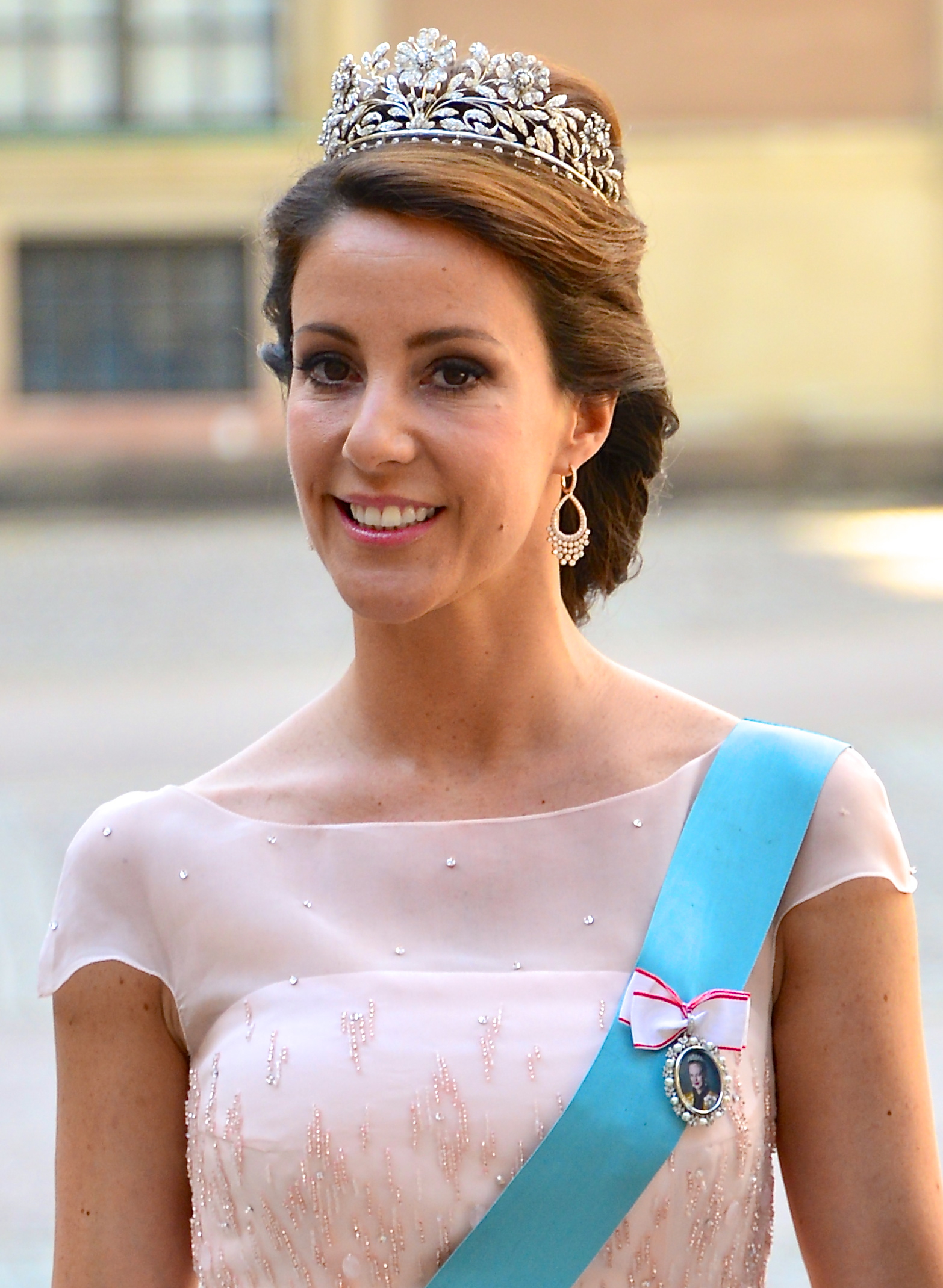 Marie, Princess of Denmark on the way to the castle church at the Royal Palace in Stockholm before the wedding between Princess Madeleine and Christopher O'Neill June 8, 2013.